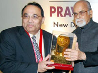 Me, Narayan Hosmane receving the Lifetime achievement pravasi award